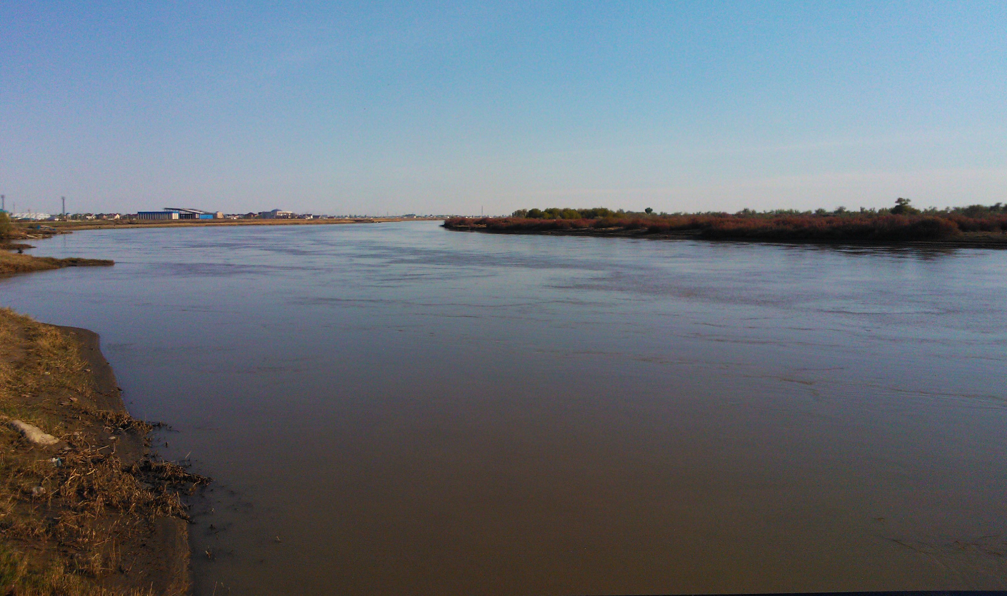 Syr Darya river near Kyzylorda, Kazakhstan.